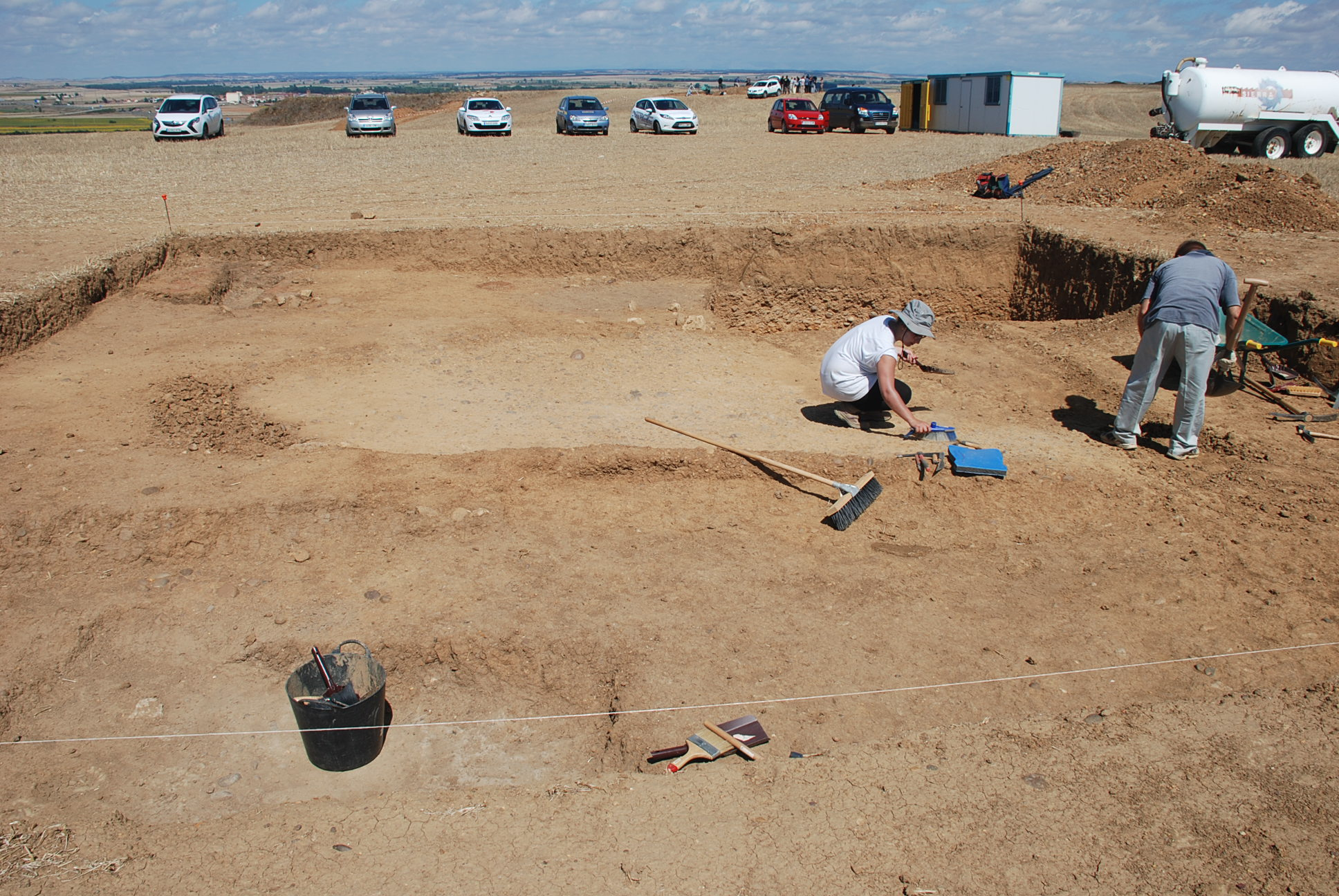 Archaeological excavations at the site of Dessobriga in Osorno la Mayor (province of Palencia, Castile and León). Firstly, there is a paved area that has been interpreted as a Roman Street. In the upper left corner the imprint of a razed building, and the top-right of the tasting. This has deepened as geological ground control.